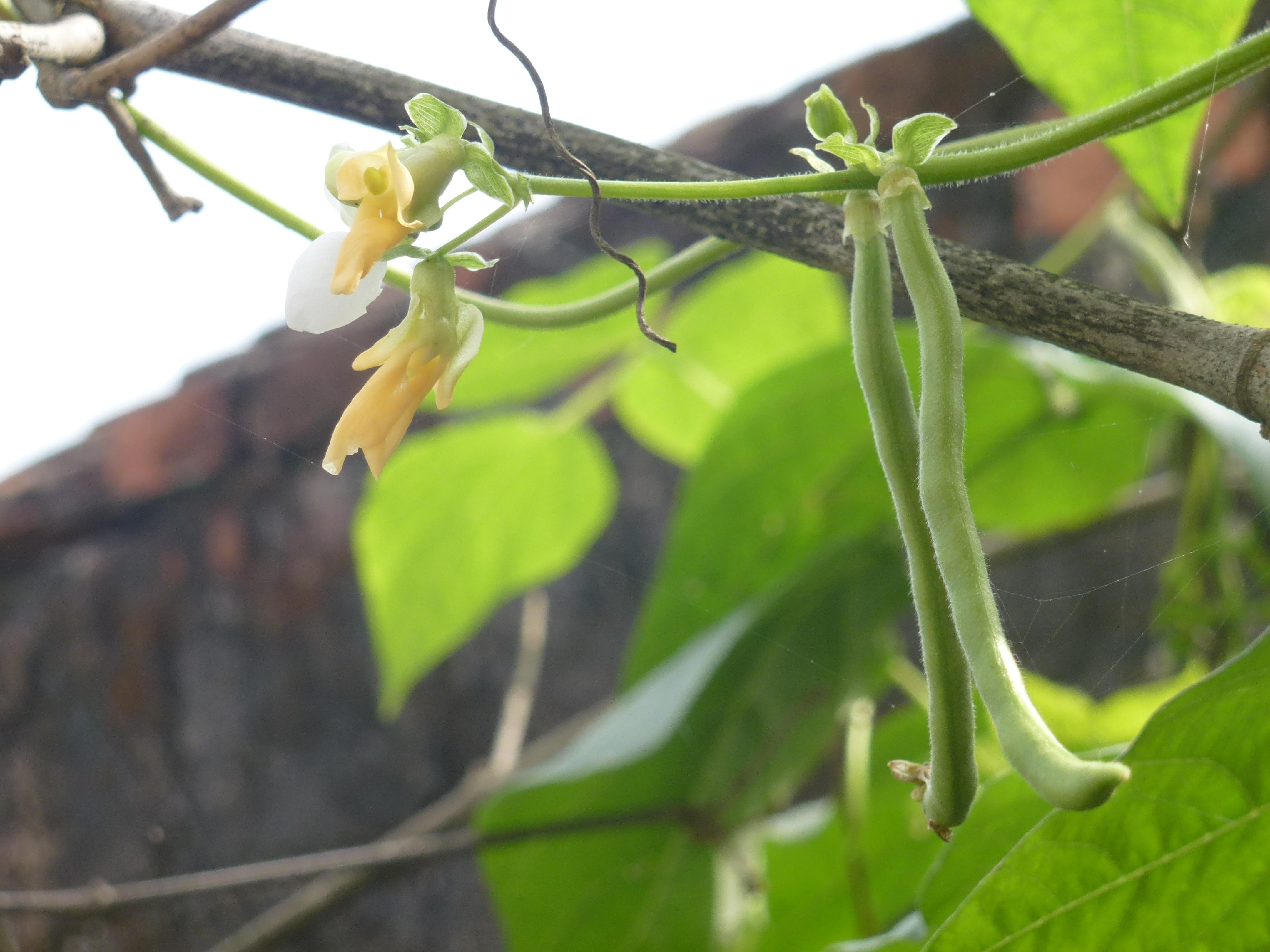 Phaseolus vulgaris - flowers and pods